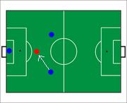 sketch of no offside position